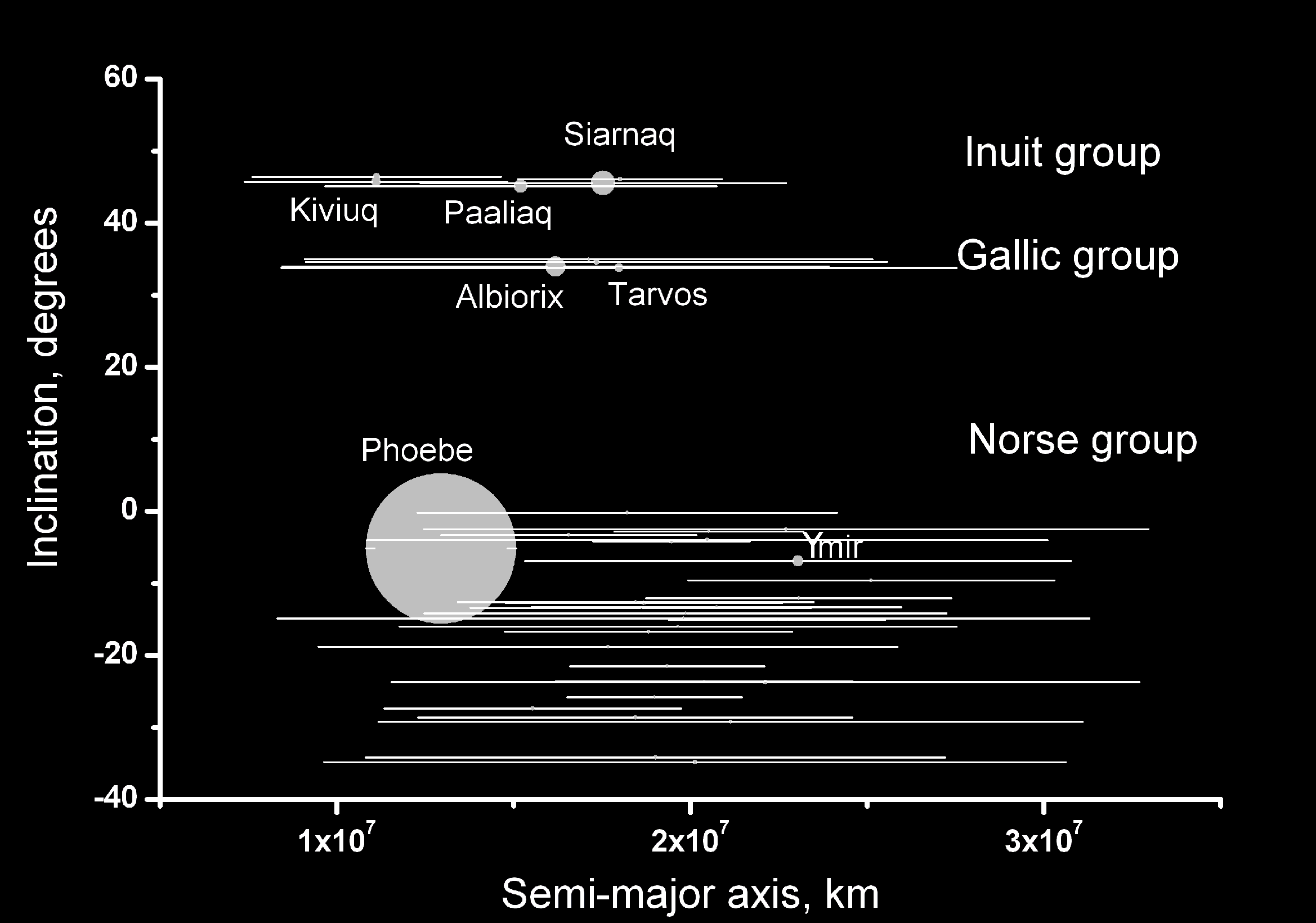 The image shows orbital inclinations of irregular satellites of Saturn as a function of their semi-major axises. The negative inclinations correspond to retrograde moving satellites (180°–inclination). The bars parallel to the X-axis correspond to the range of their distances from Saturn. (from the periapse to apoapse) The diameters of gray circles are proportional to the moon's diameters. The names of satellites equal or larger than 15 km are shown. The three groups of irregular satellites (Inuit, Gallic and Norse) are also indicated. The information was taken from website.